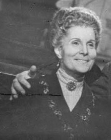 Ilde Pirovano- actriz